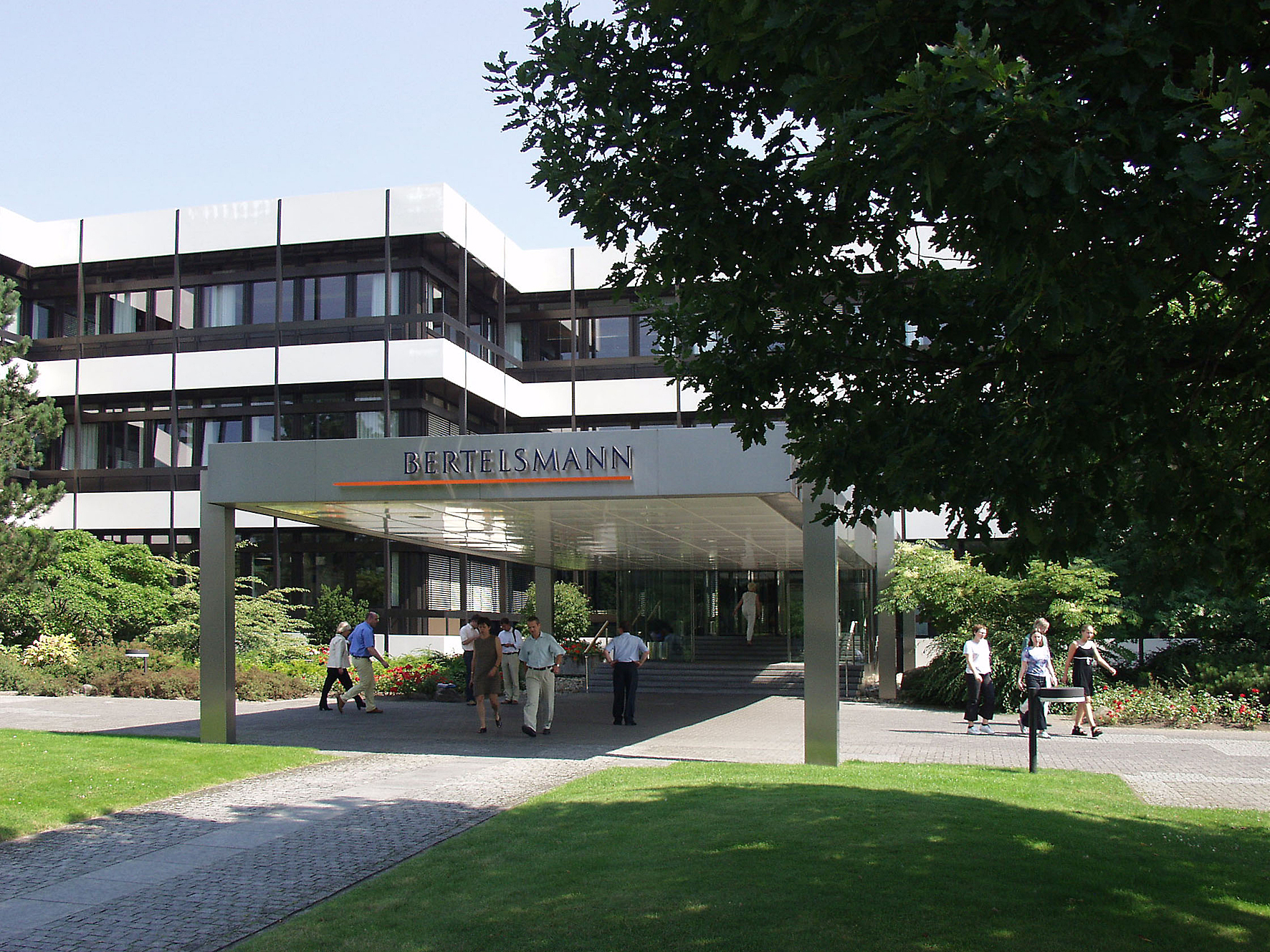 Corporate headquarters of the Bertelsmann Group in Guetersloh, Germany